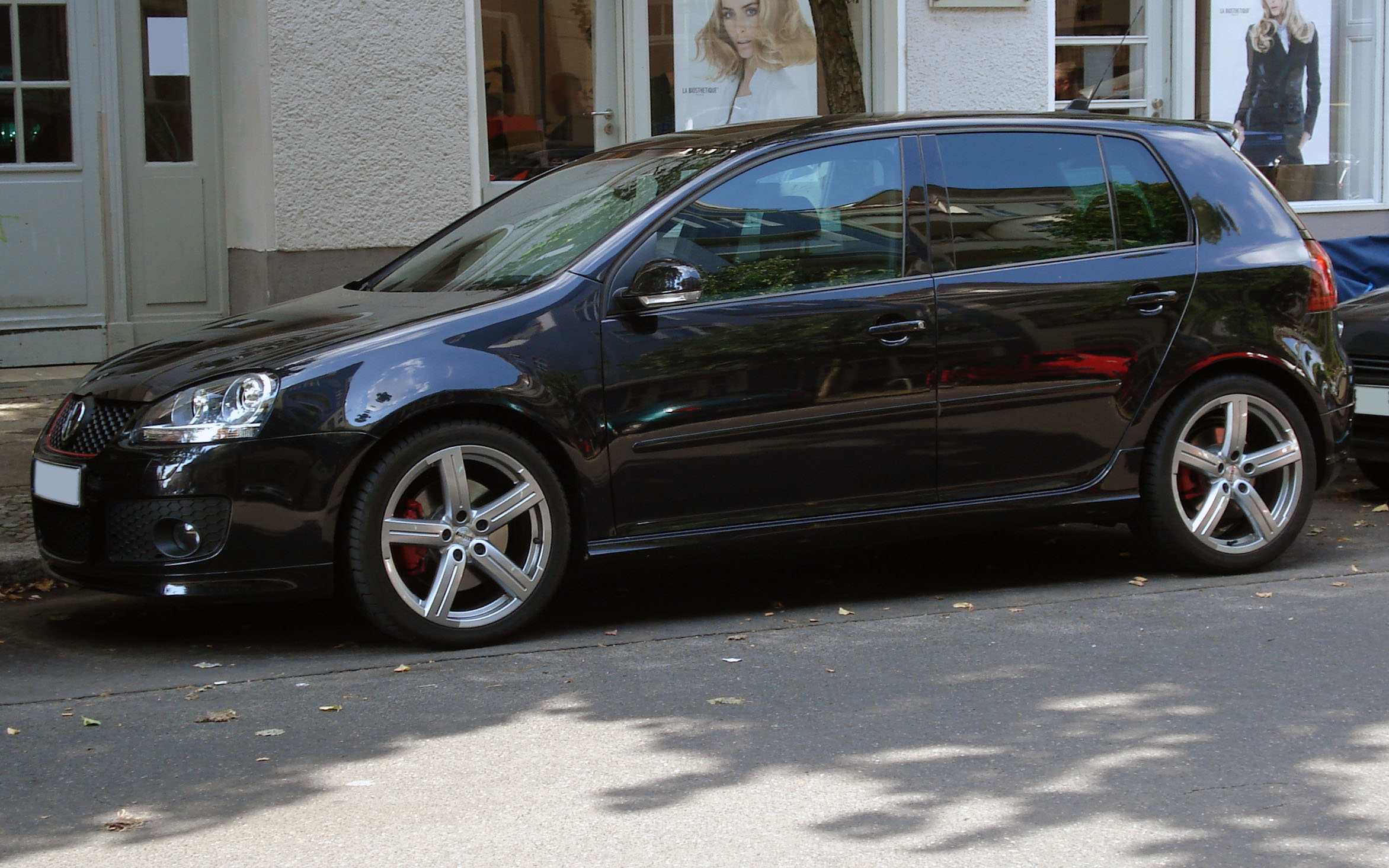 VW Golf GTI (5th gen.) Pirelli Edition